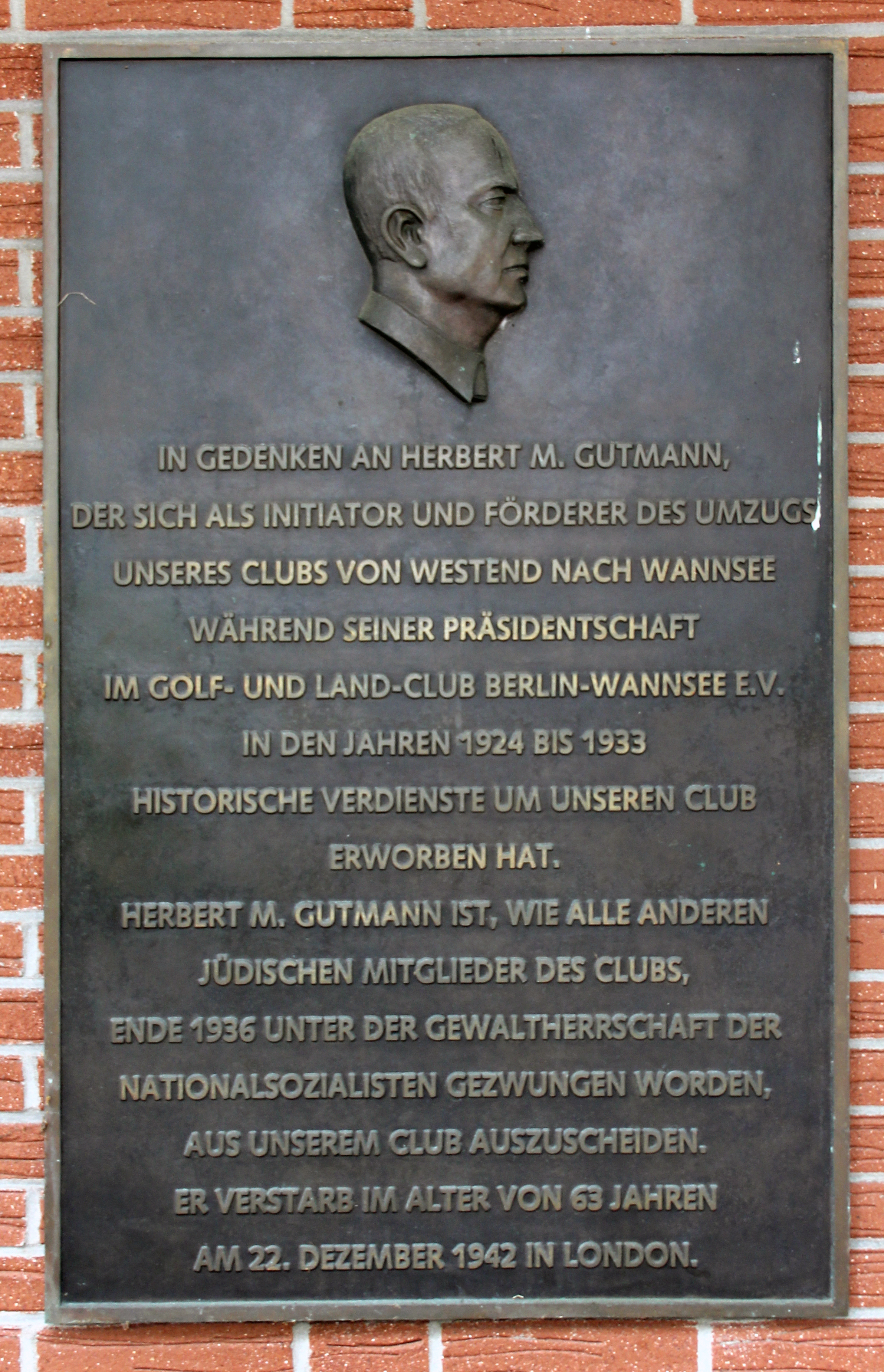 Memorial plaque, Herbert M. Gutmann, Golfweg 22, Berlin-Wannsee, Deutschland